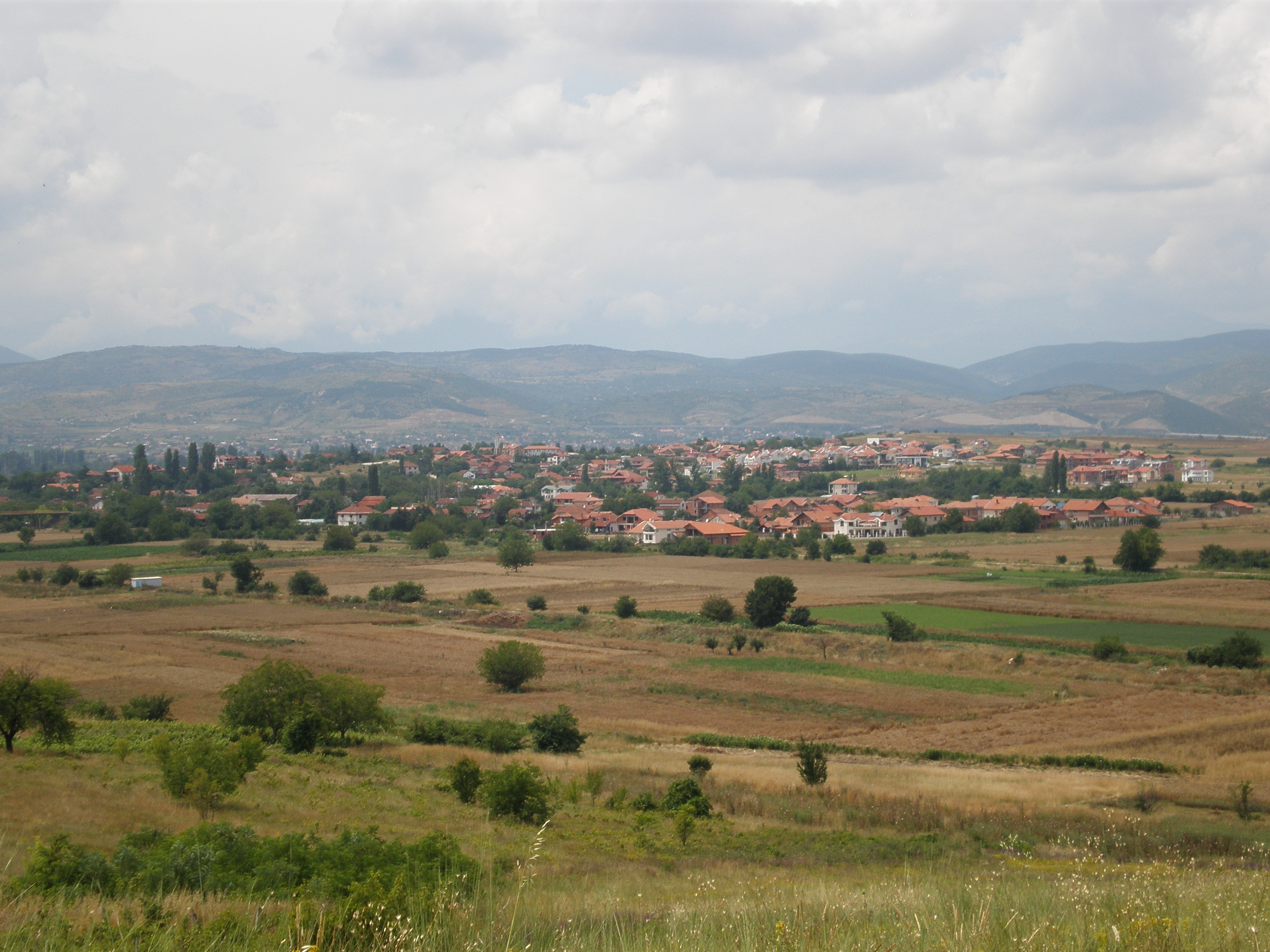 View of village of Bardovci